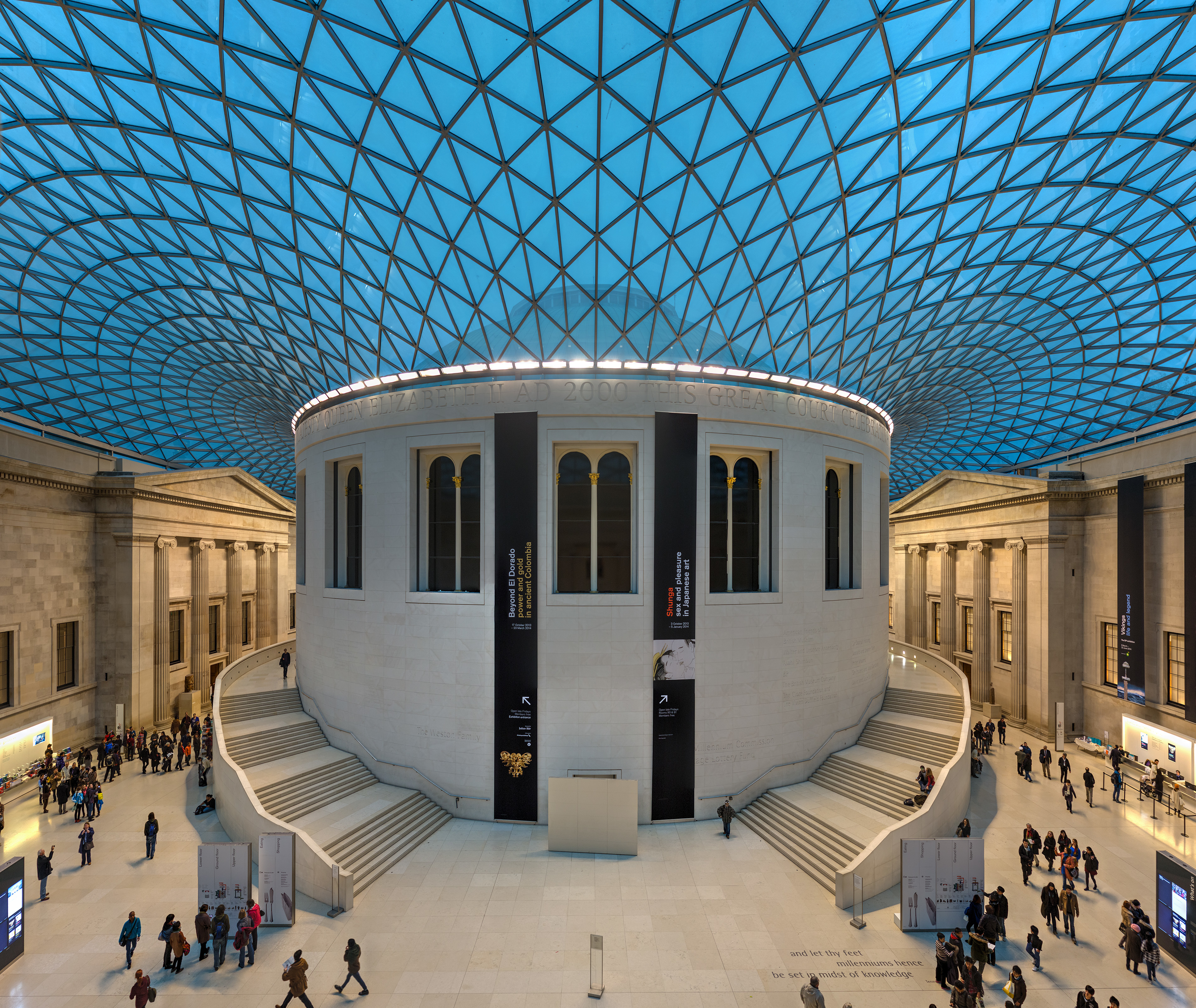 An ultra-wide rectilinear stitched panorama of the Great Court of the British Museum in London, United Kingdom.